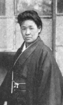 A middle-aged Japanese woman, wearing a dark kimono. Her hair is dressed in a bun with a slight bouffant.